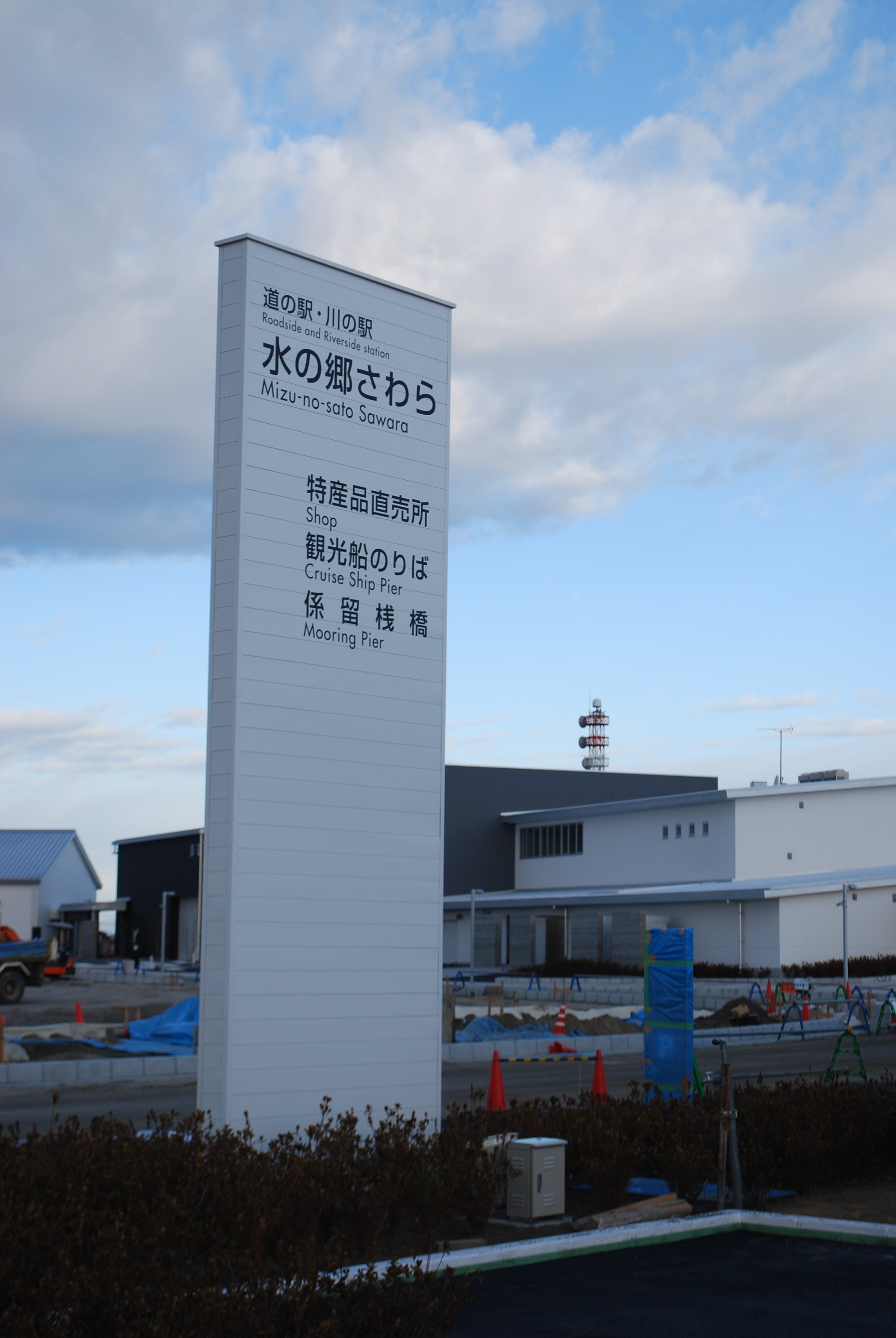 Michinoeki/Kawanoeki Mizunosato Sawara in Katori City, Chiba Prefecture, Japan